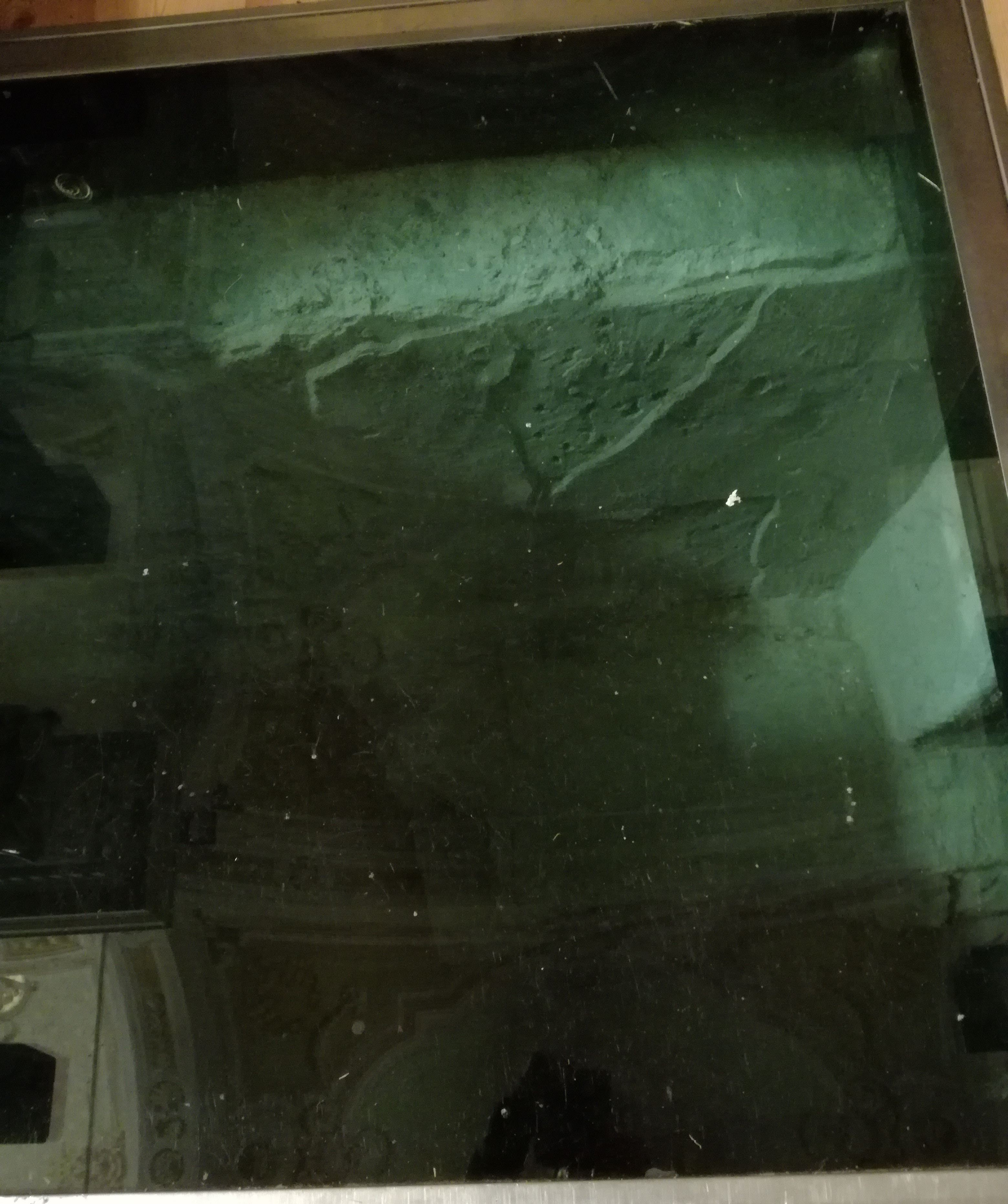 Crypt of a church in Brusson.